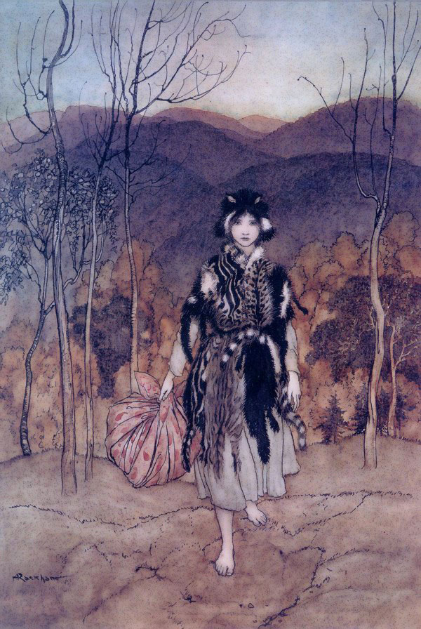 From English Fairy Tales (1918), illustrated by Arthur Rackham